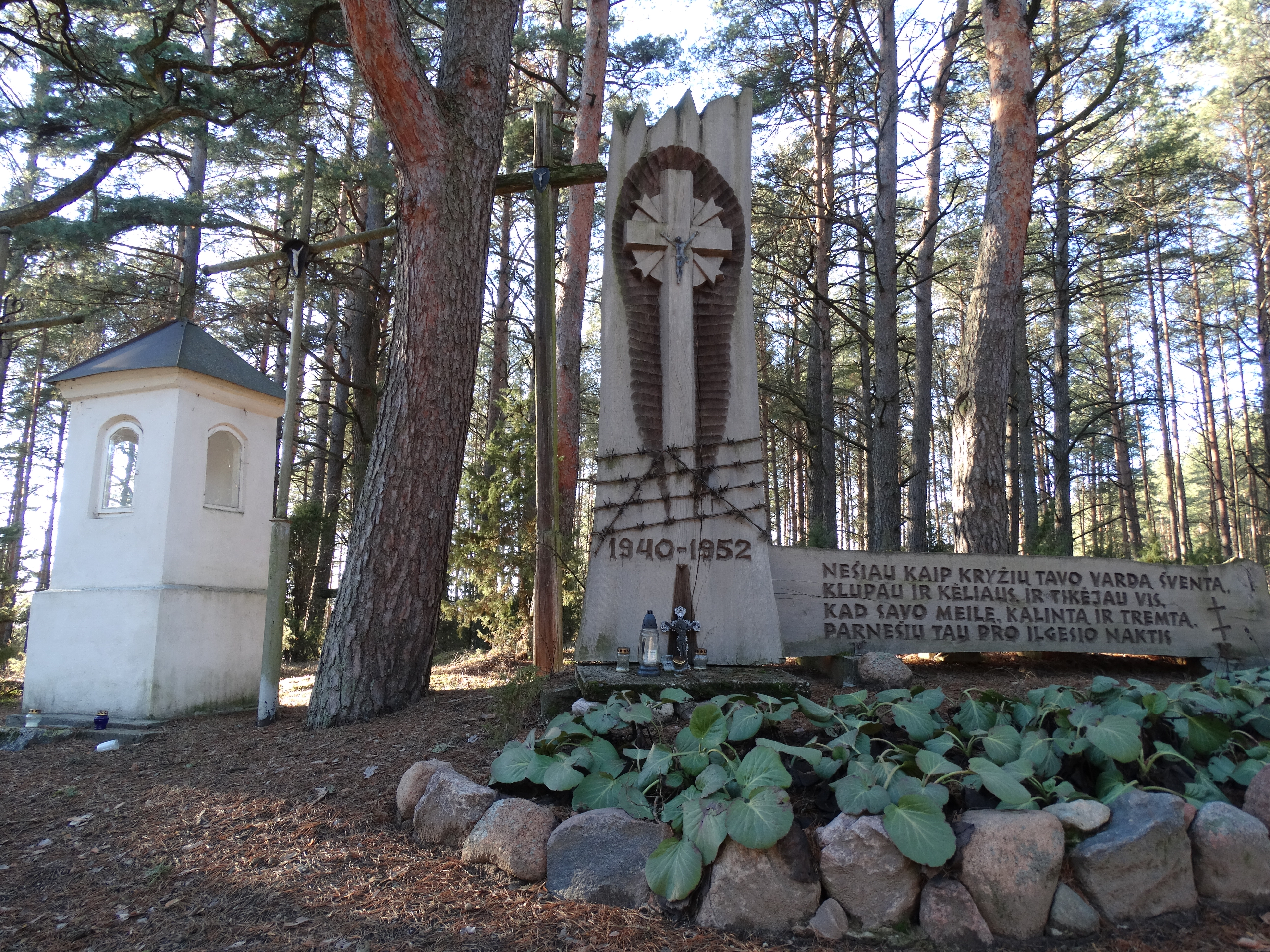 Memorial cross, Švendubrė, Druskininkai Municipality, Lithuania